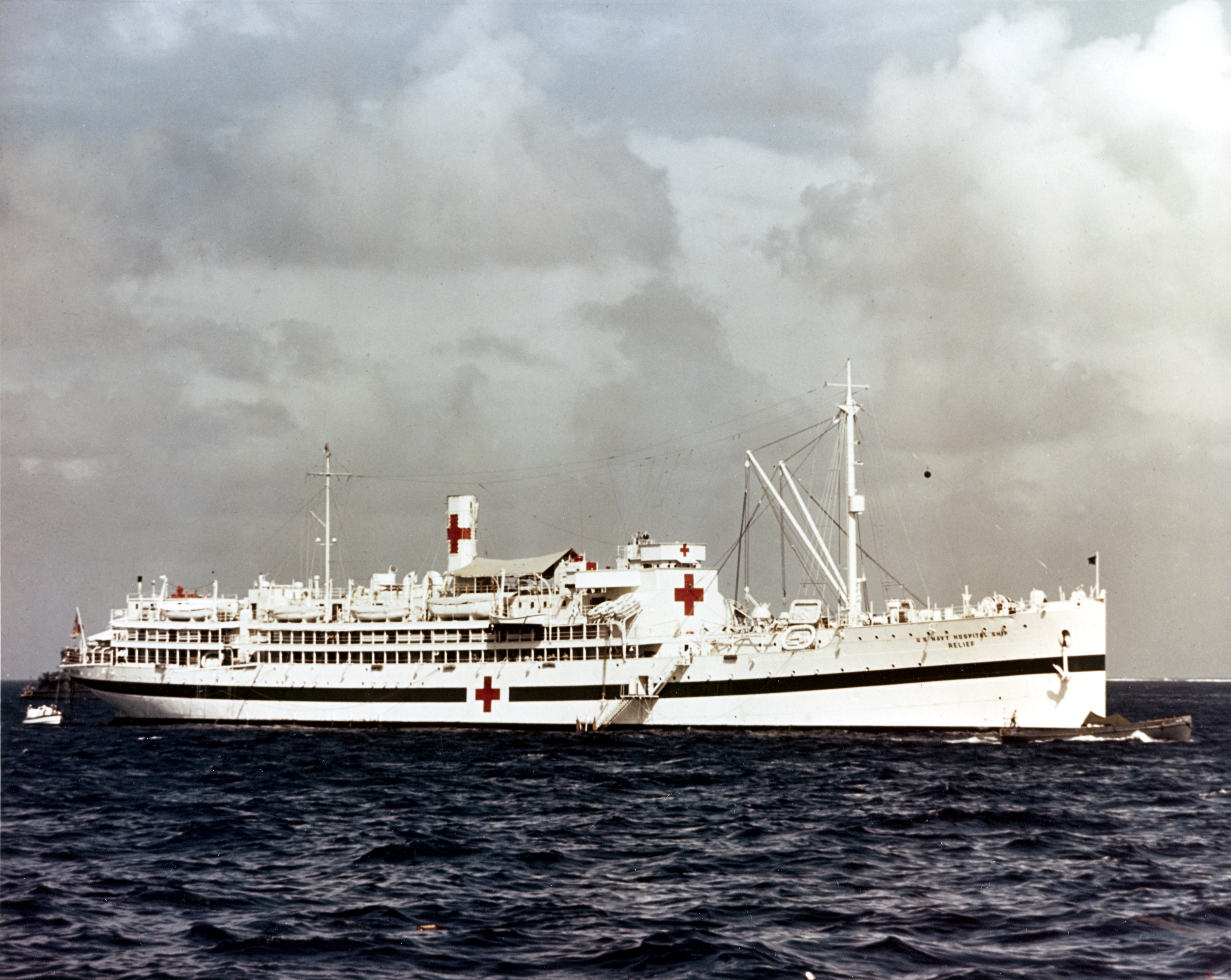 The U.S. Navy hospital ship USS Relief (AH-1) in a western Pacific harbour, probably at the time of the Okinawa Campaign, circa April 1945.